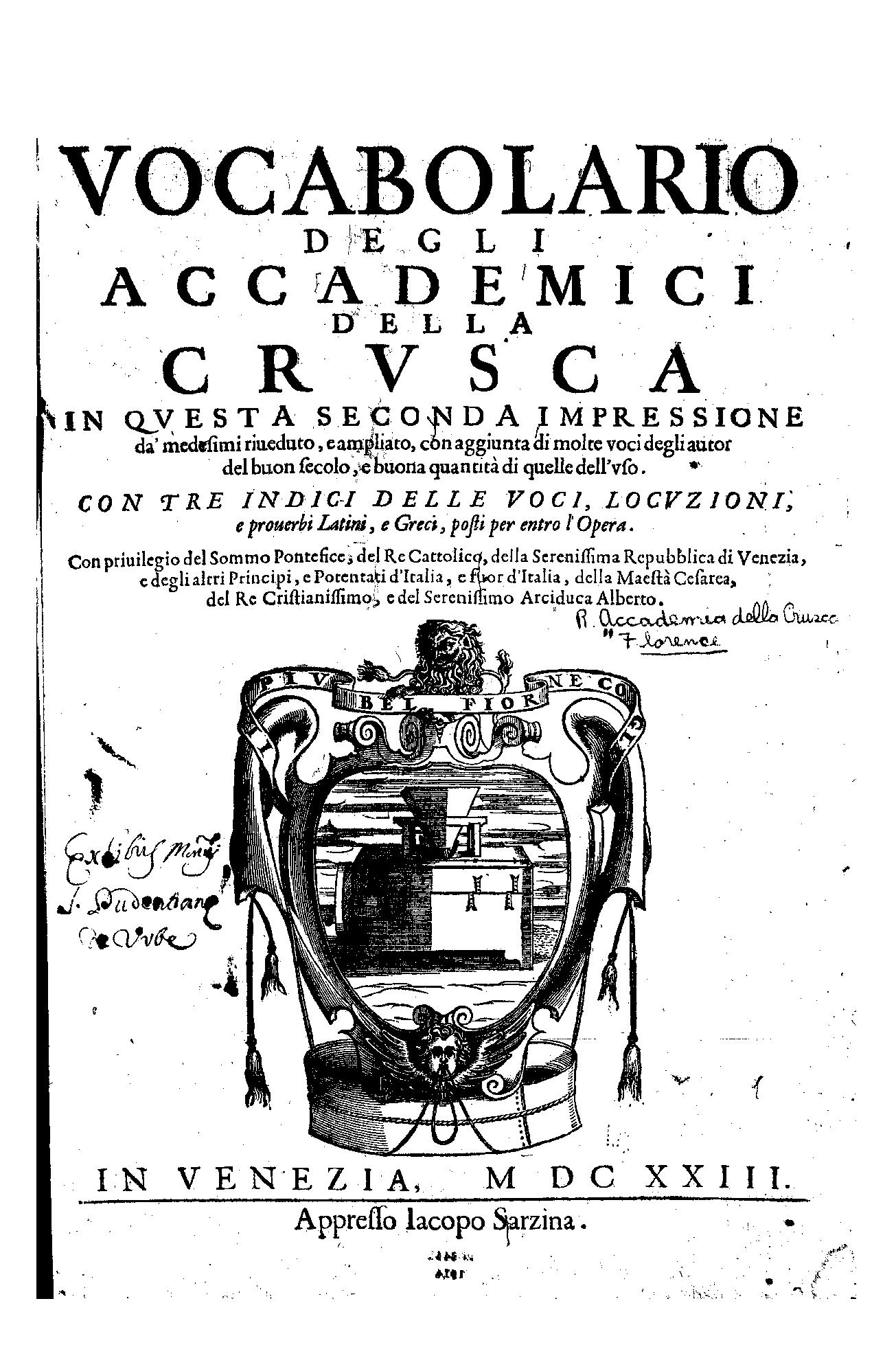 Front page